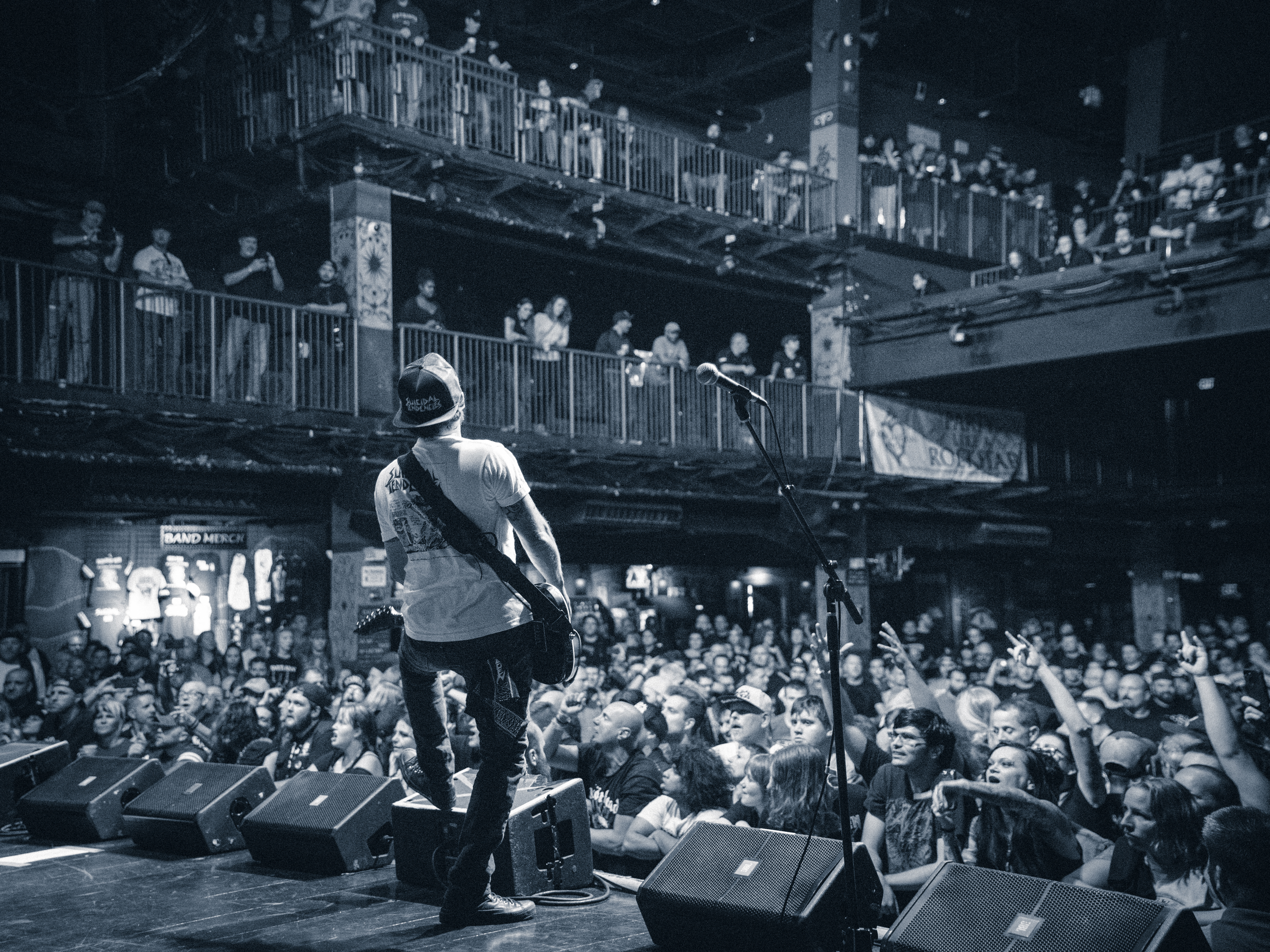 Ben Weinman at House of Blues in Boston, 9/7/2018. Photo by Matthew Tieuli